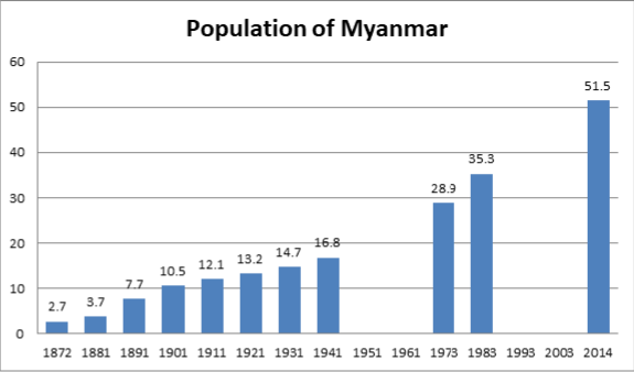 The population graph of Myanmar